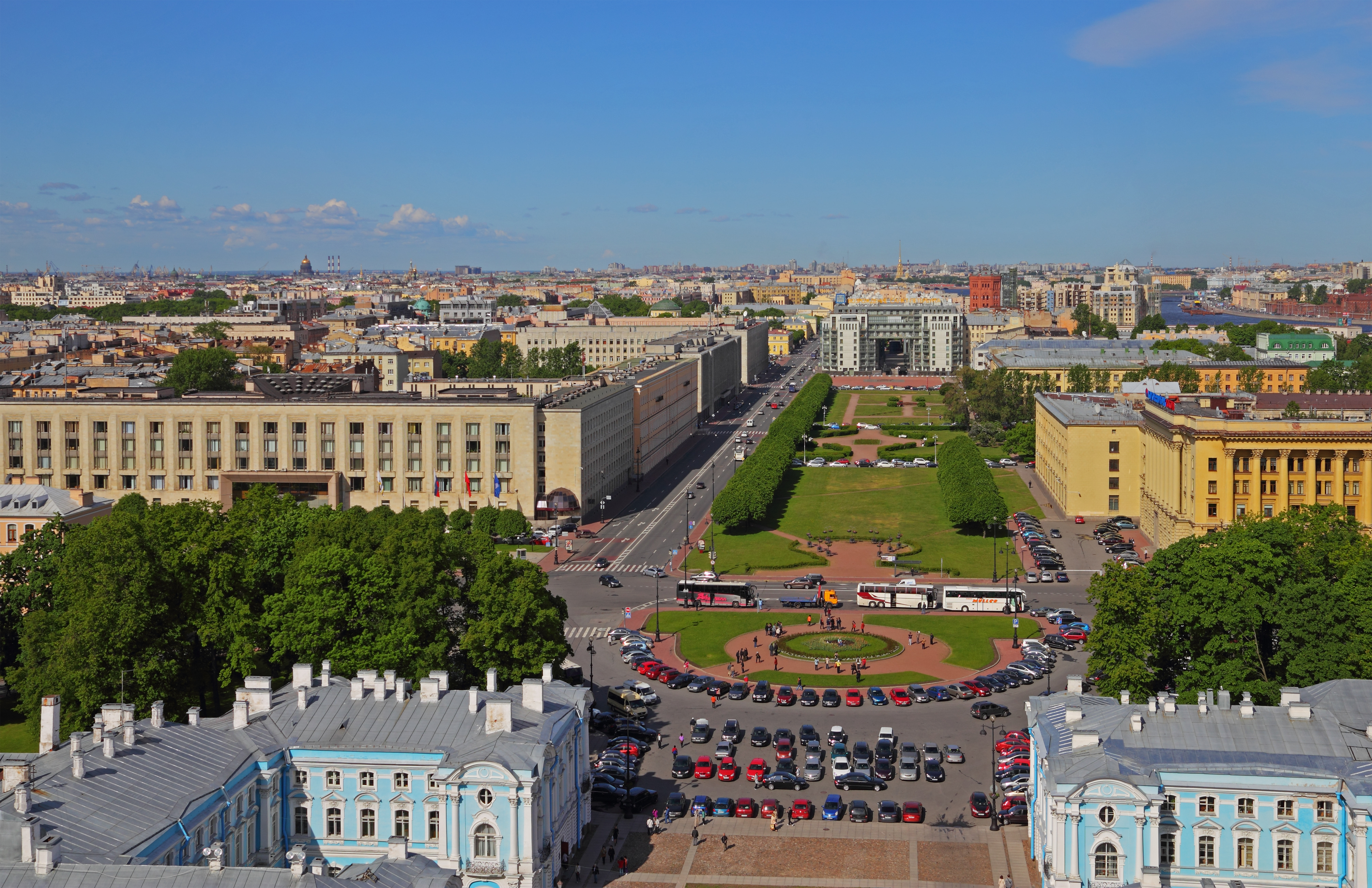 St. Petersburg, Russia. Views from the two bell towers of the Smolny Cathedral.